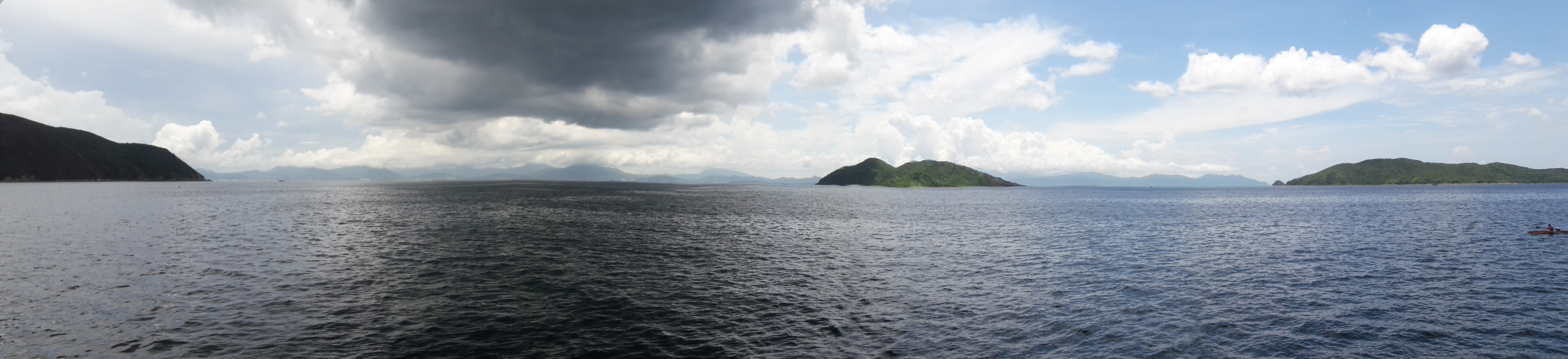 Tolo channel looking towards Yantian, Shenzhen, 12 km southwest of Tung Ping Chau 中文（香港）: 赤門海峽，深圳鹽田方向，於東平洲西南12公里處攝。